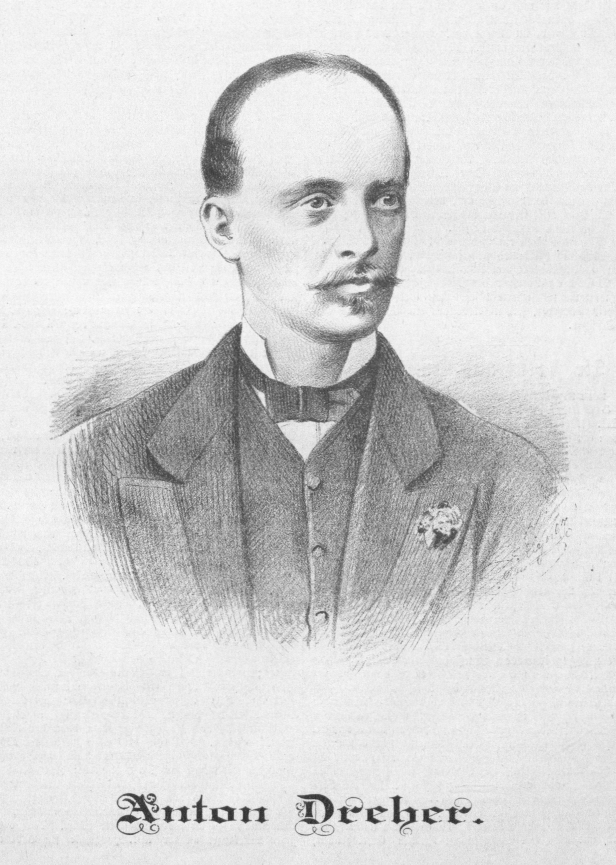 Portrait of Anton Dreher junior (1849-1921), Austrian brewer